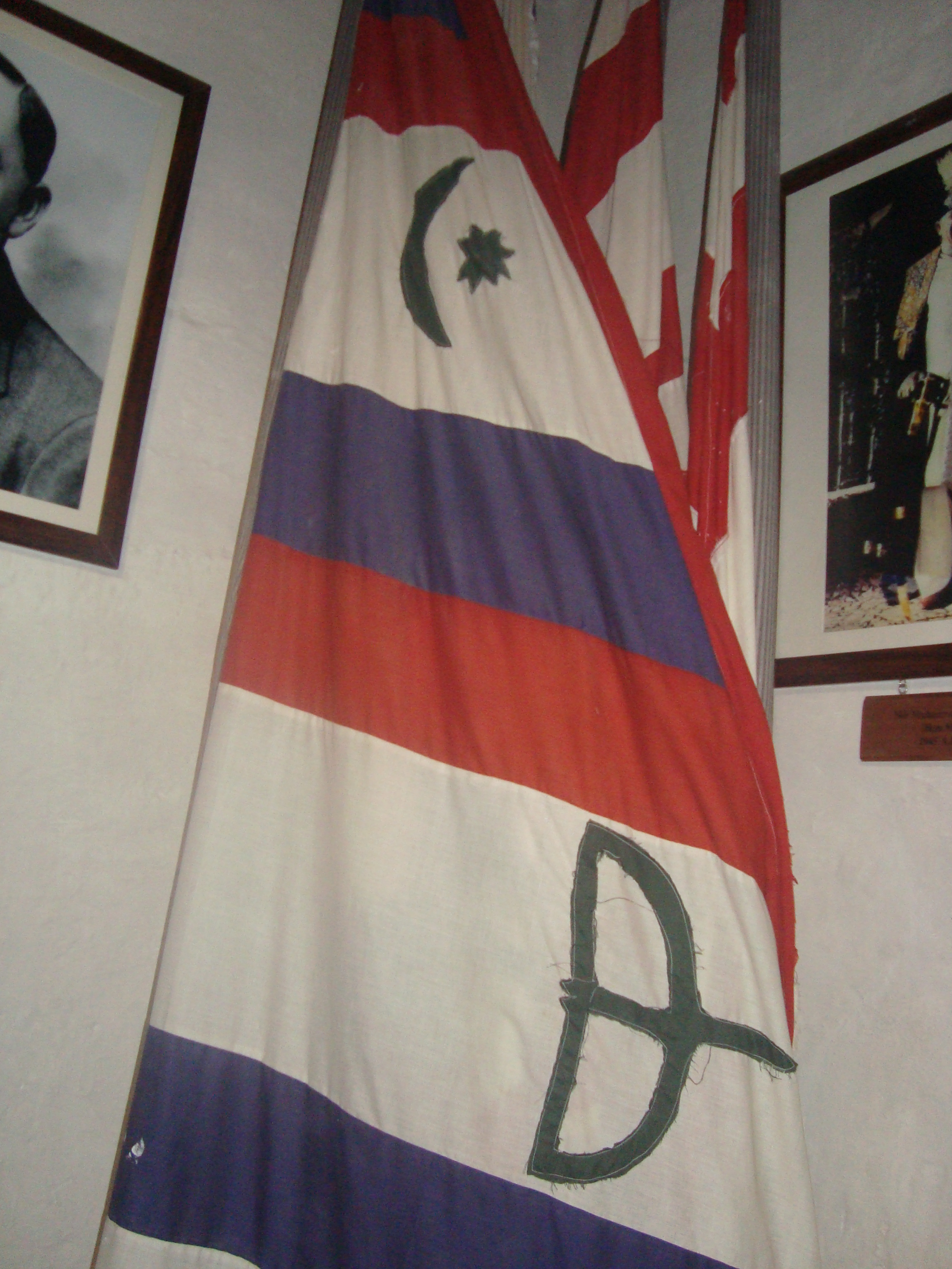 Baltit Fort This is a photo of a monument in Pakistan identified as the GB-15